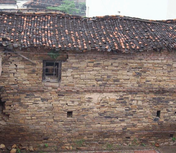 old home